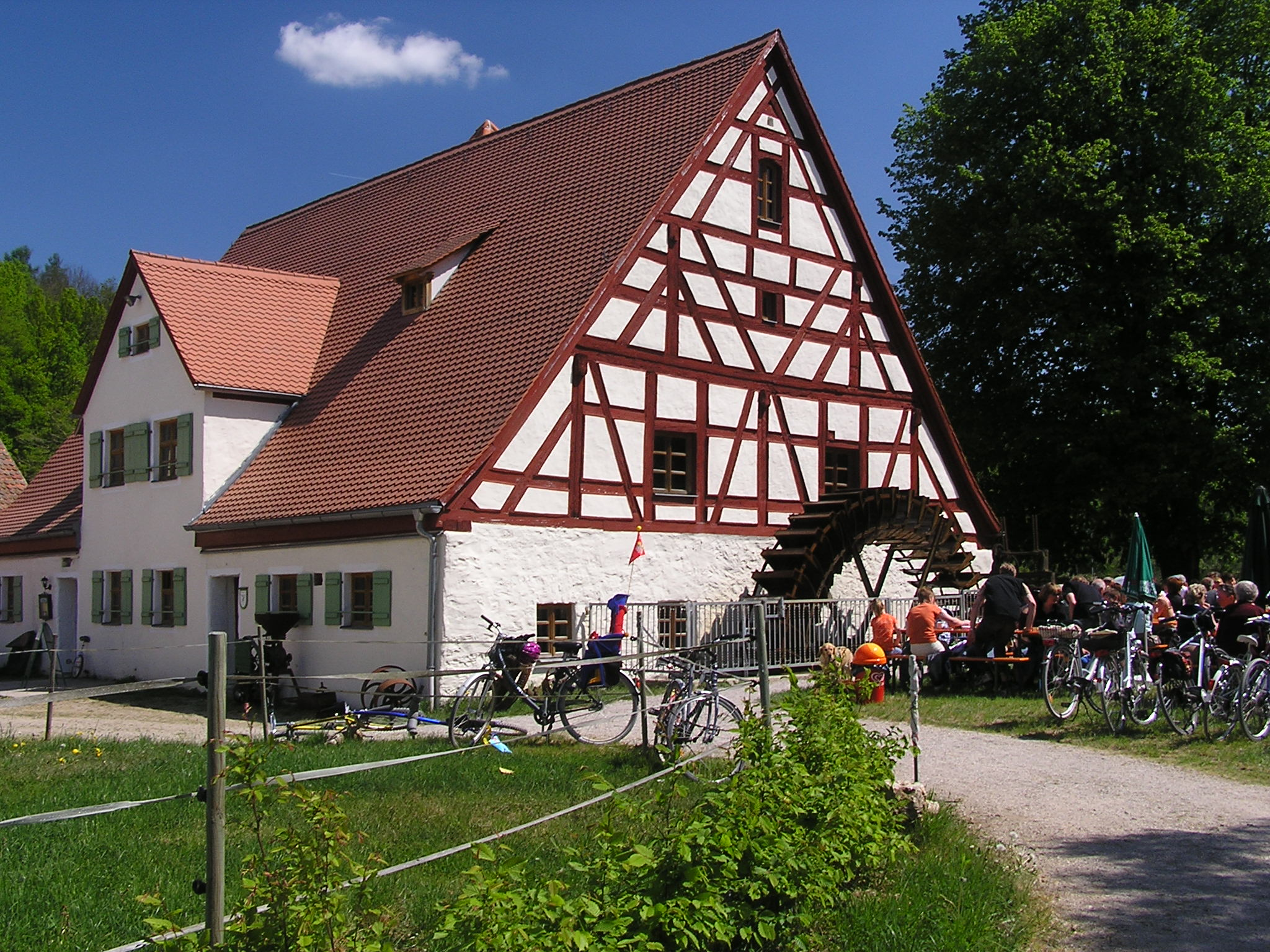 Klostermuehle, near the village of Gnadenberg in the municipality of Berg